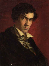 William Bell Scott (1811 –1890) was a Scottish artist in oil and watercolour. Artist, Arthur Hughes, portrait after David Scott.